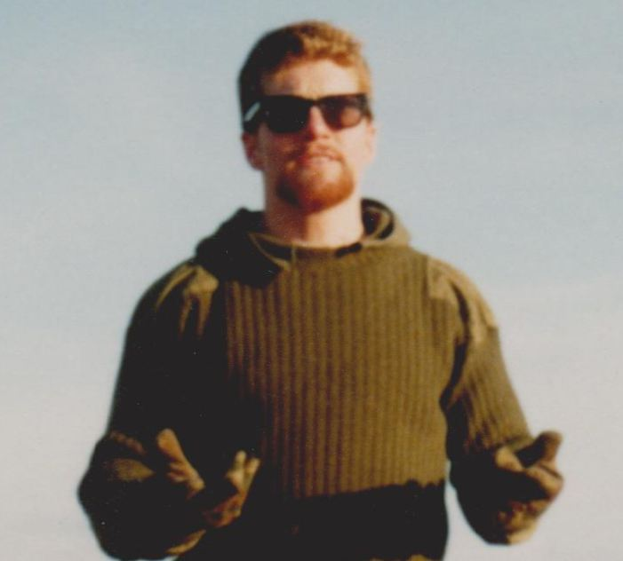 Jay Westervelt